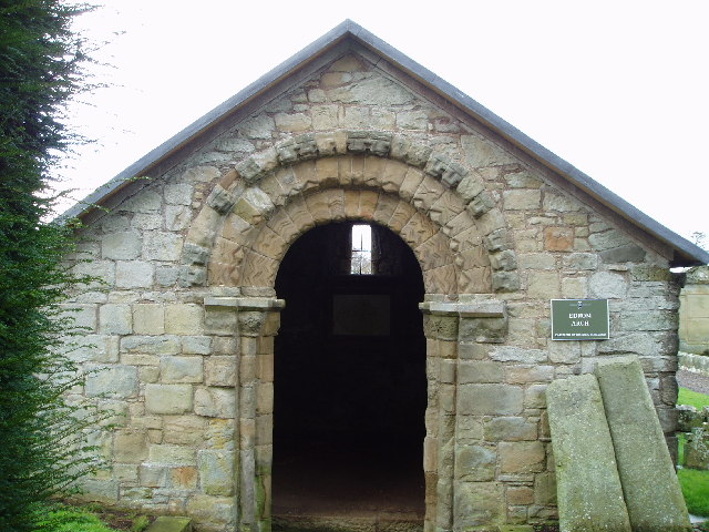 12th century Romanesque doorway of Edrom Church, Berwickshire, Scotland. The doorway is the only remaining original Norman part of the church. It is now the entrance to the main burial vault of the Logan family.